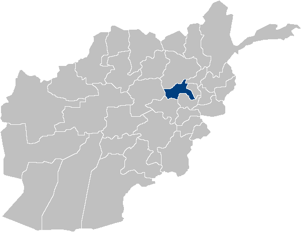 Location map for Parwan Province in Afghanistan. Original map source: Image:Afghanistan_provinces_blank.png